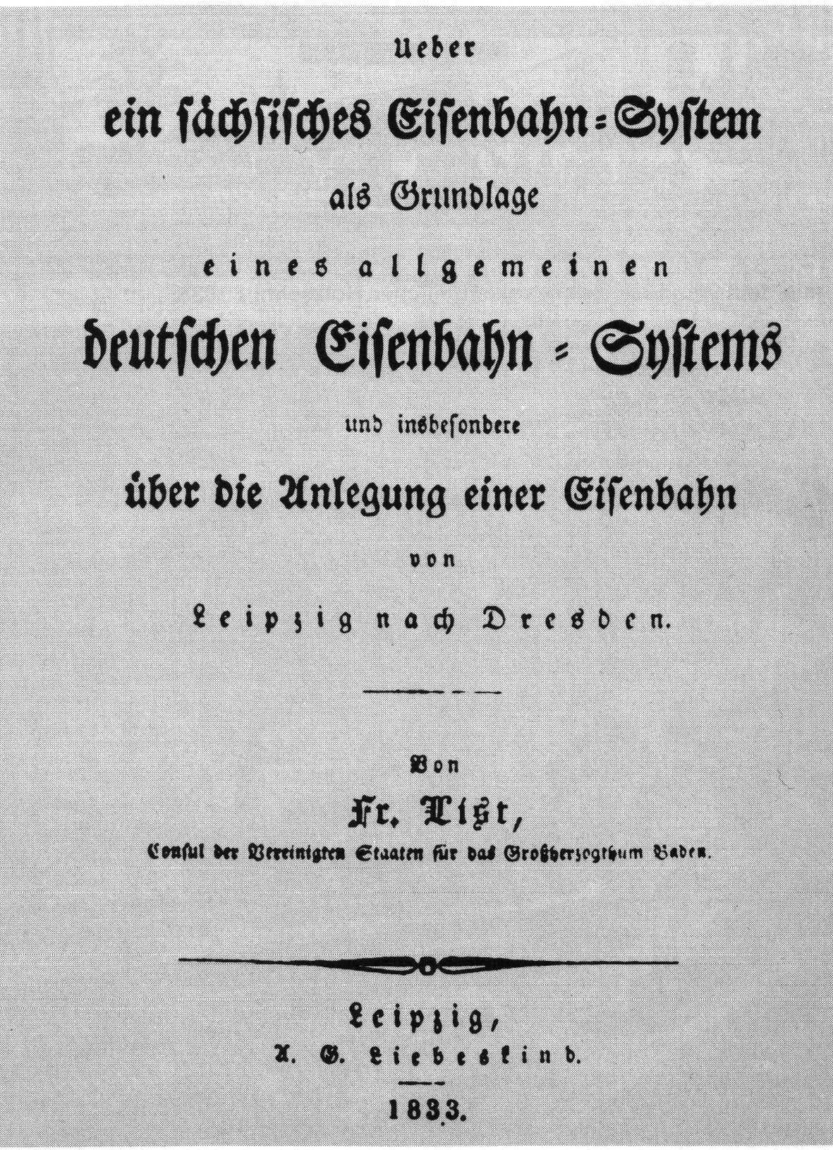 cover of Friedrich List's book on German railway system from 1833